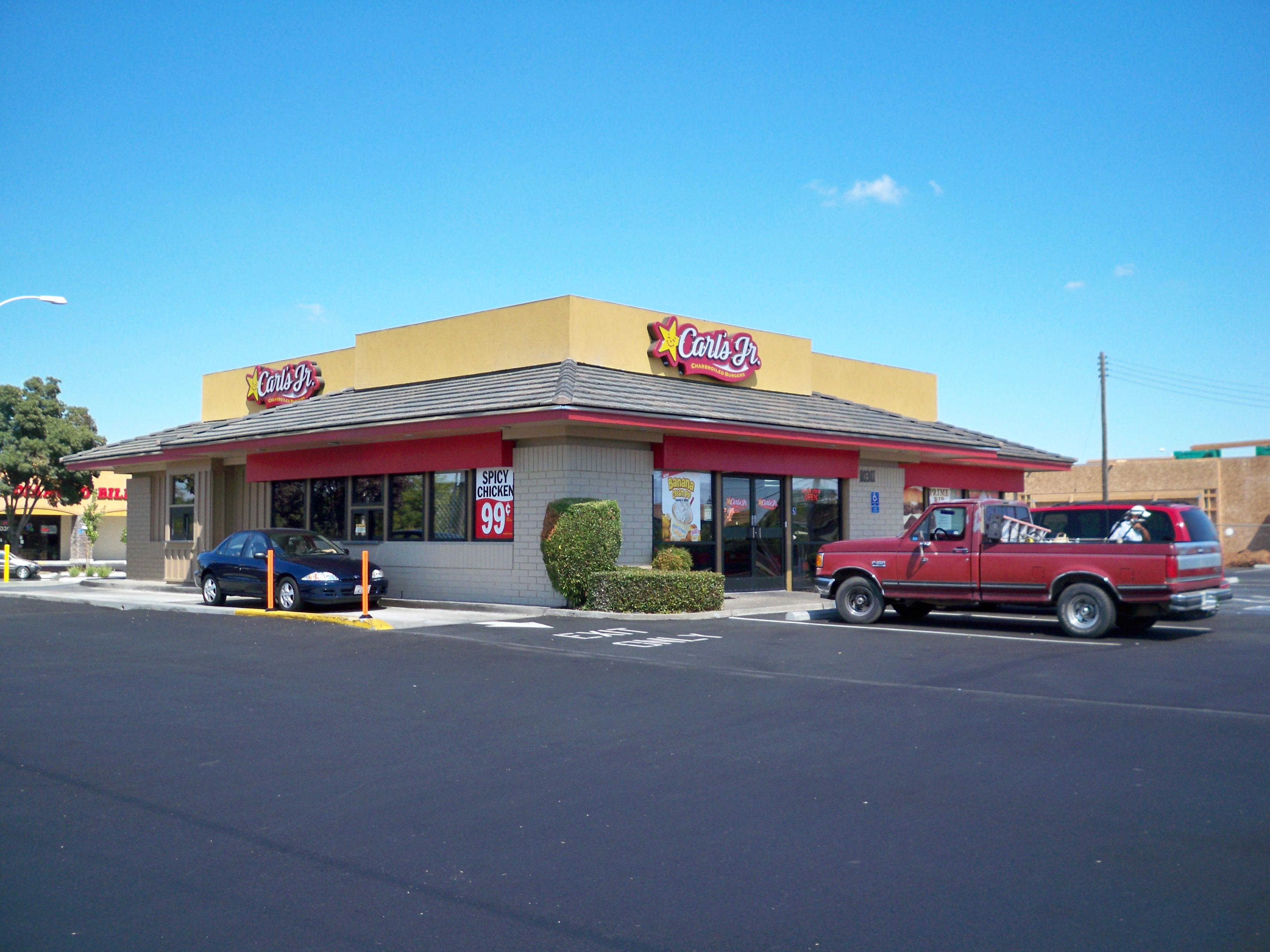 A Carls Jr in Rancho Cordova, CA